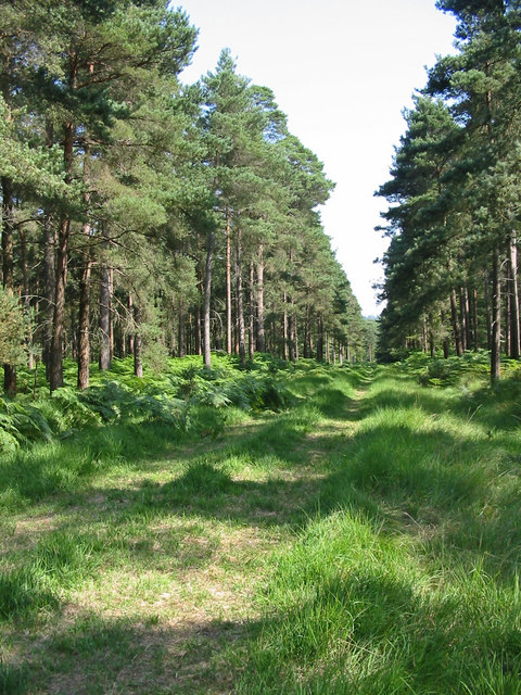 Forest ride Slufters inclosure New Forest Hampshire. Strong growth of bracken (Pteridium aquilinum) here. Bracken is the commonest fern in Britain, flourishing on light acid soils in woodland, heaths, hills and moors. It can damage archaeological sites since the rhizomes break the actual stone of some sites. The Forestry Commission is conducting trials to cut and compost this vigorous plant.